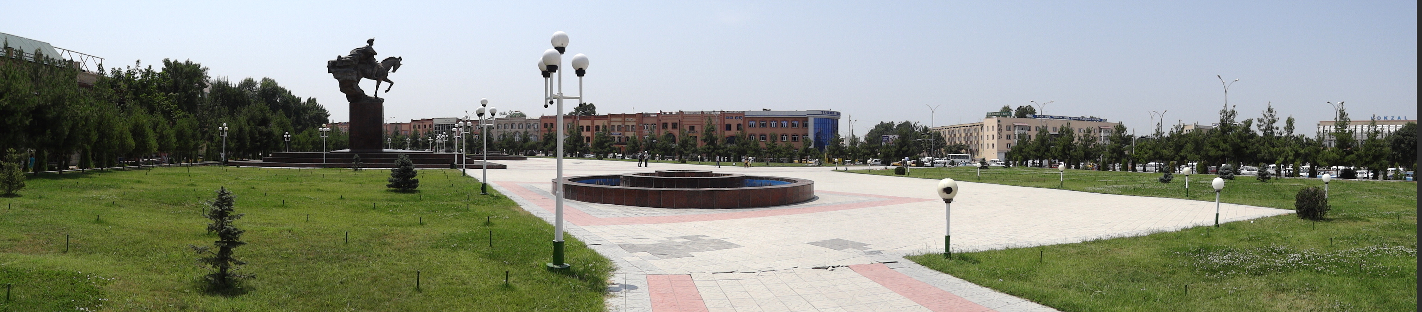 Panorama of Navoi Square (Formerly Bobur Square) - Where 2005 Massacre Took Place - Andijon - Uzbekistan - 02